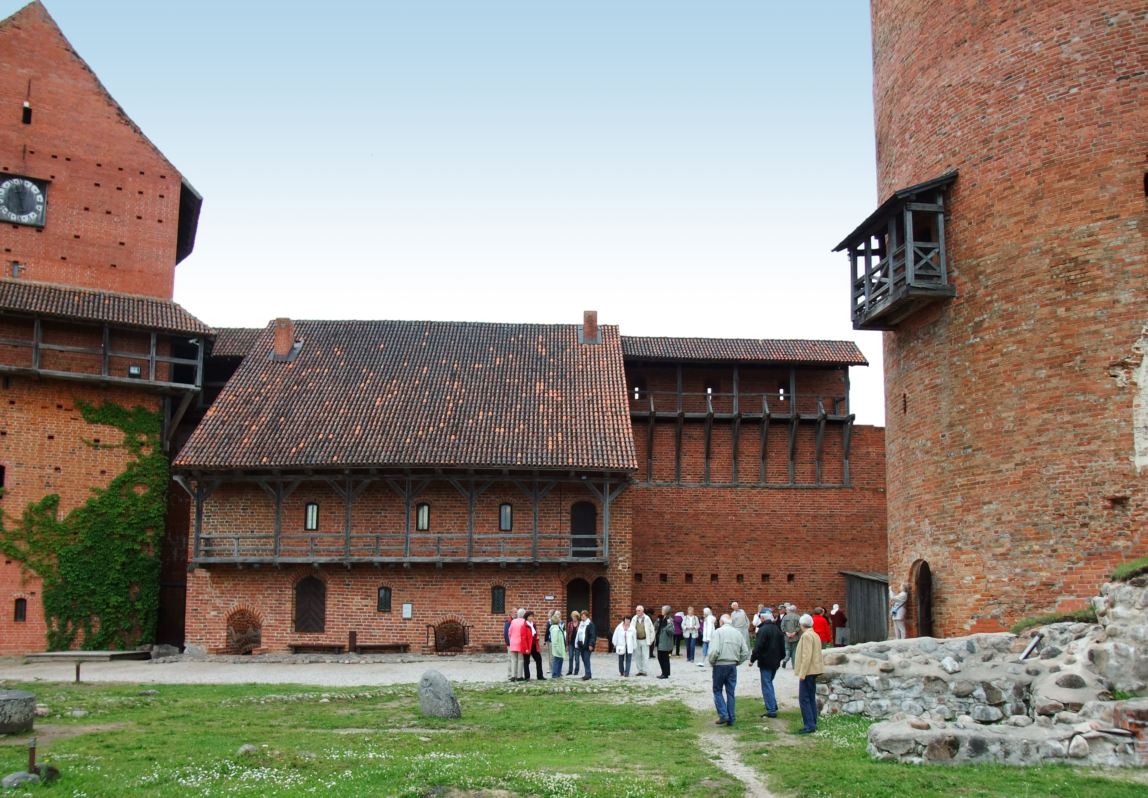 Turaida Castle in Latvia